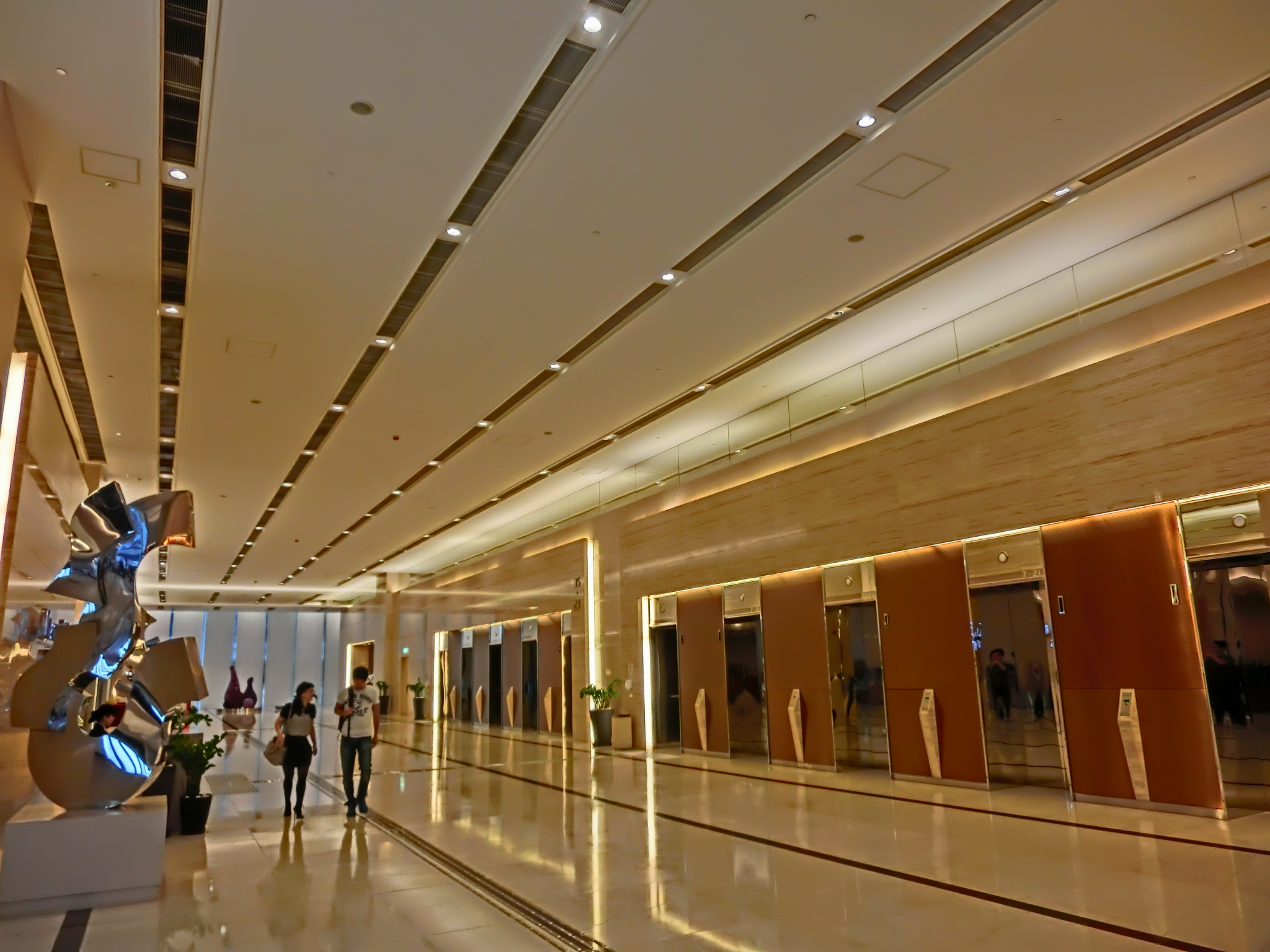 觀塘觀塘道392號, 創紀之城六期 Millennium City phase 6, Kwun Tong, Hong Kong